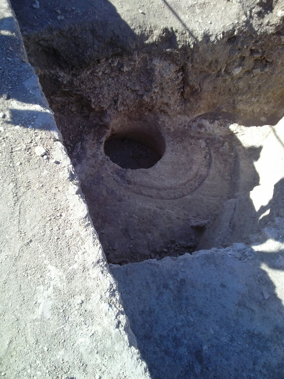 Archaeological excavations at Moshav Amka 2015